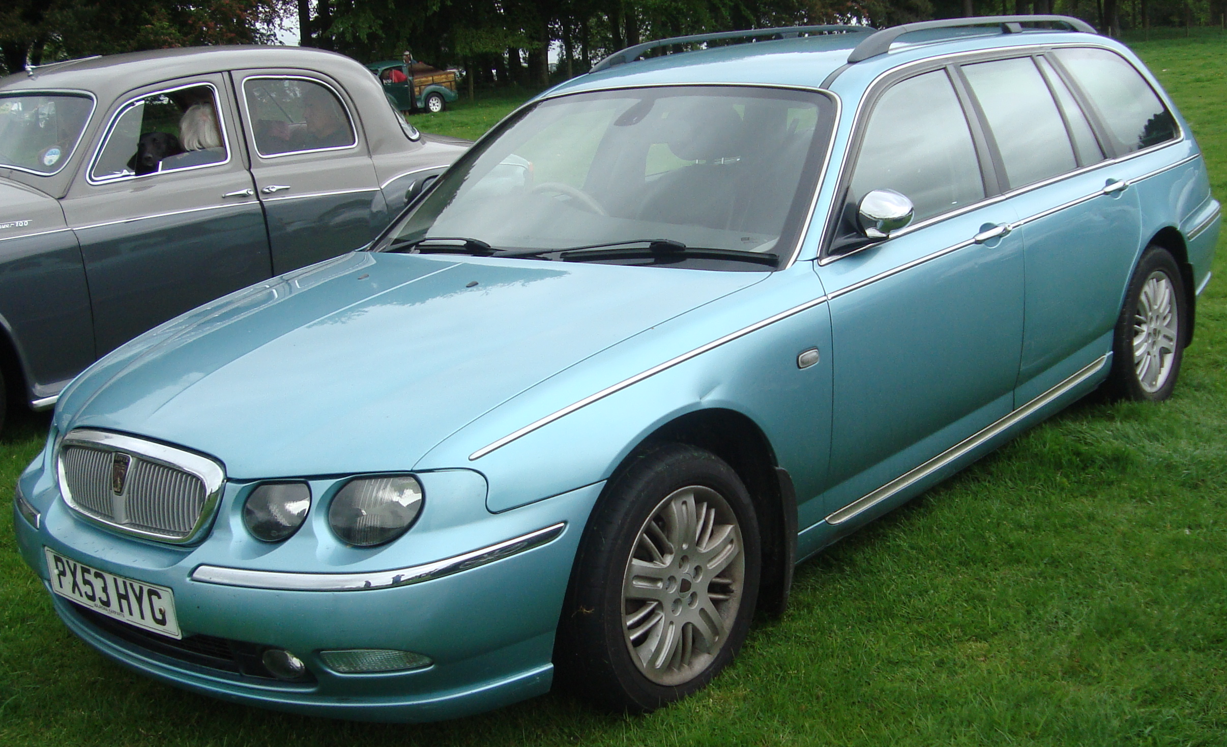 Quite a mouthful